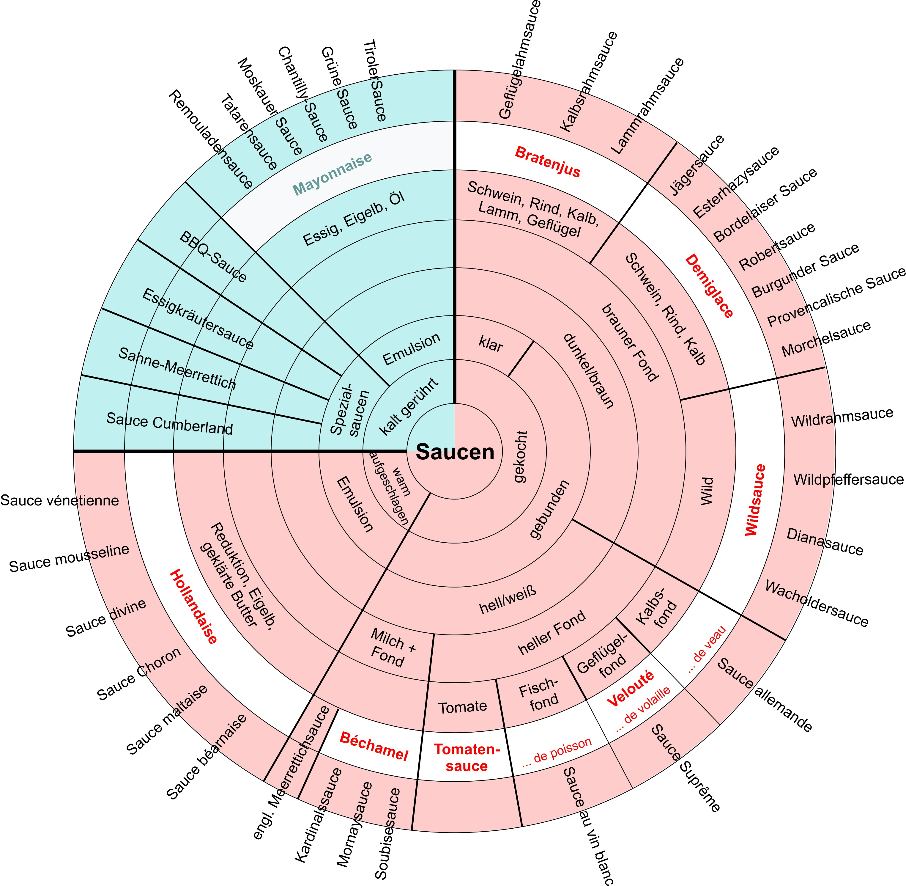 This graphic is a schematic view of sauces